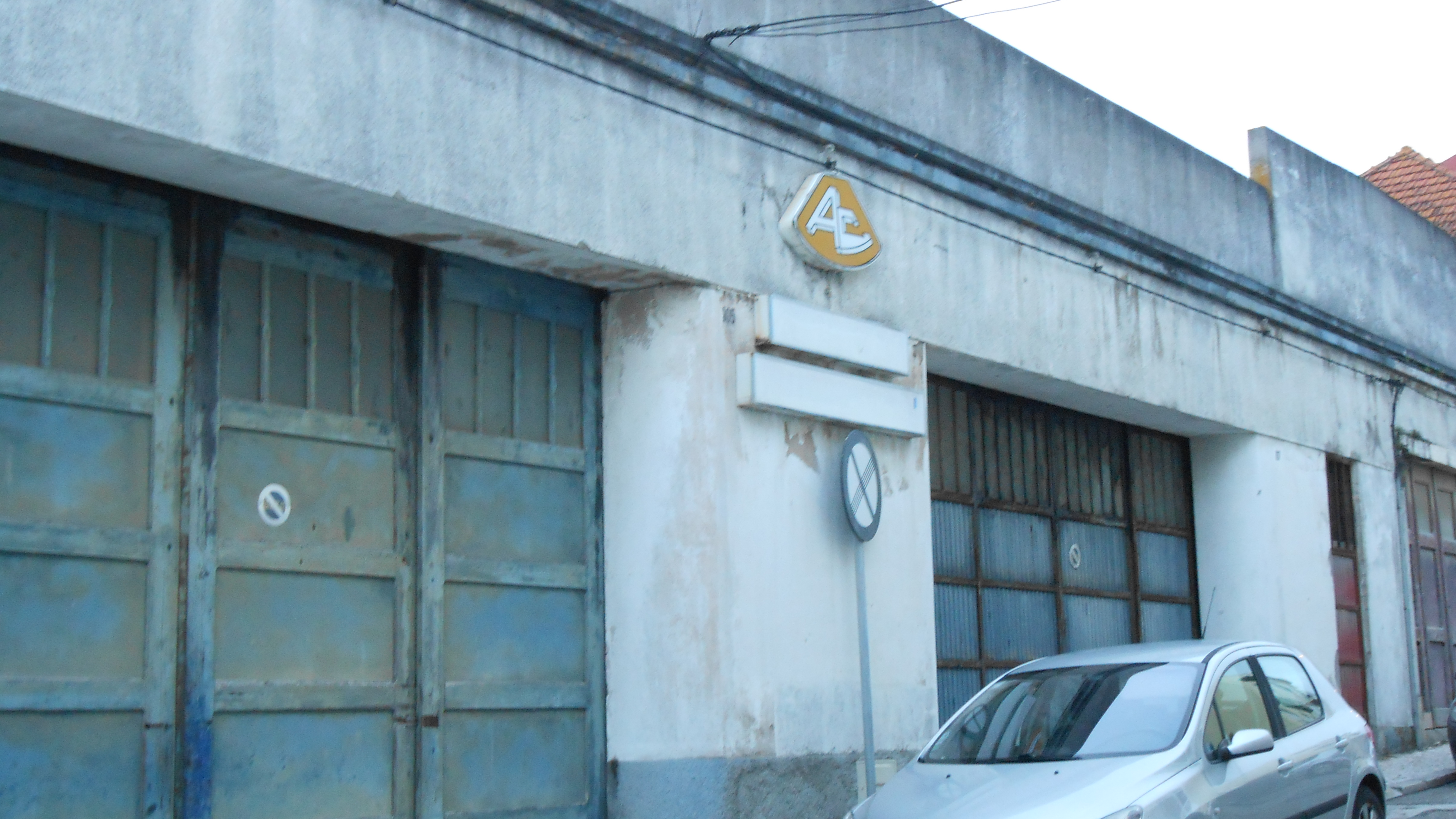 Entrance to the A. Cação Automóveis workshop, april 2013